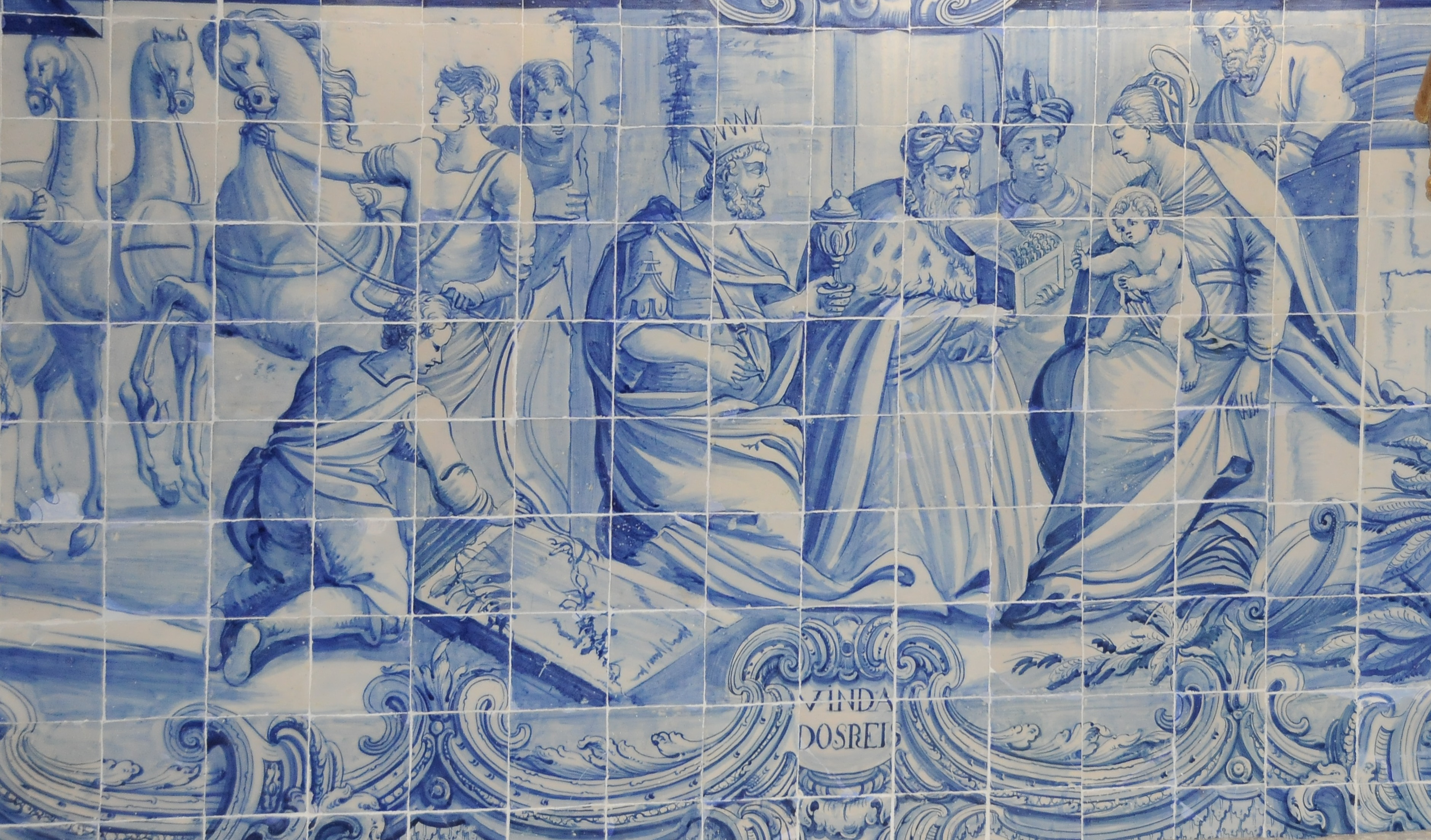 Azulejos in Santuário de Porto de Ave, in Povoa de Lanhoso, Portugal